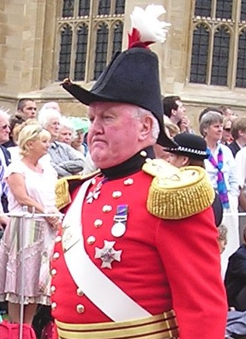 Major General Sir Michael Hobbs, Governor of the Military Knights of Windsor, in procession to St George's Chapel, Windsor Castle for the annual service of the Order of the Garter.